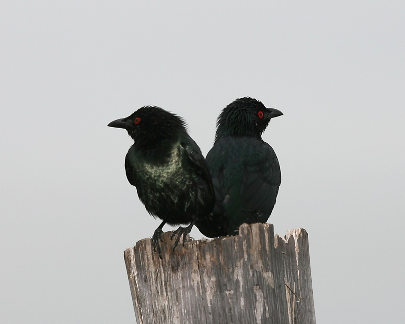 A pair of Asian Glossy Starlings (Aplonis panayensis) at Changi Village, Singapore. (Taken with a Canon EOS-1D Mark II N.)